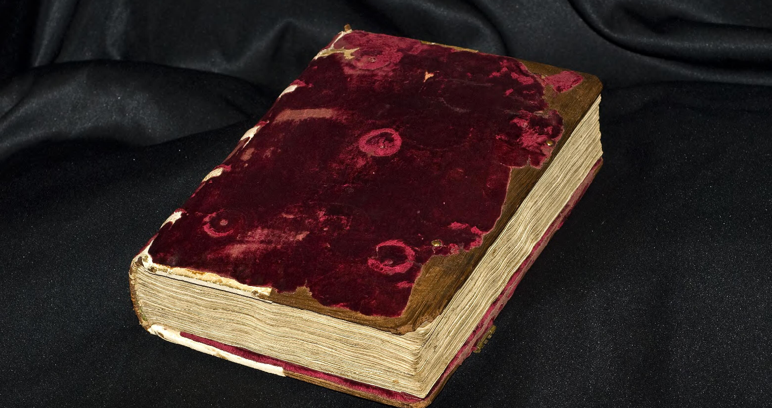 Peniarth 482D binding. Not the original binding.